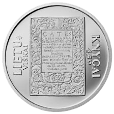 50 litas coin issued to mark the 450th Anniversary of the first Lithuanian book Silver Ag 925 Quality proof Diameter 34.00 mm Weight 23.30 g The words on the edge of the coin: MARTYNAS MAZVYDAS *IMKIT MANE IR SKAITYKIT* (TAKE ME AND READ) The designer of the coin is Petras Mazuras Issued 1997 Minted 5,000 pcs Distribution terminated 2002 Distributed 3,476 pcs The coin was minted at the state enterprise Lithuanian Mint.